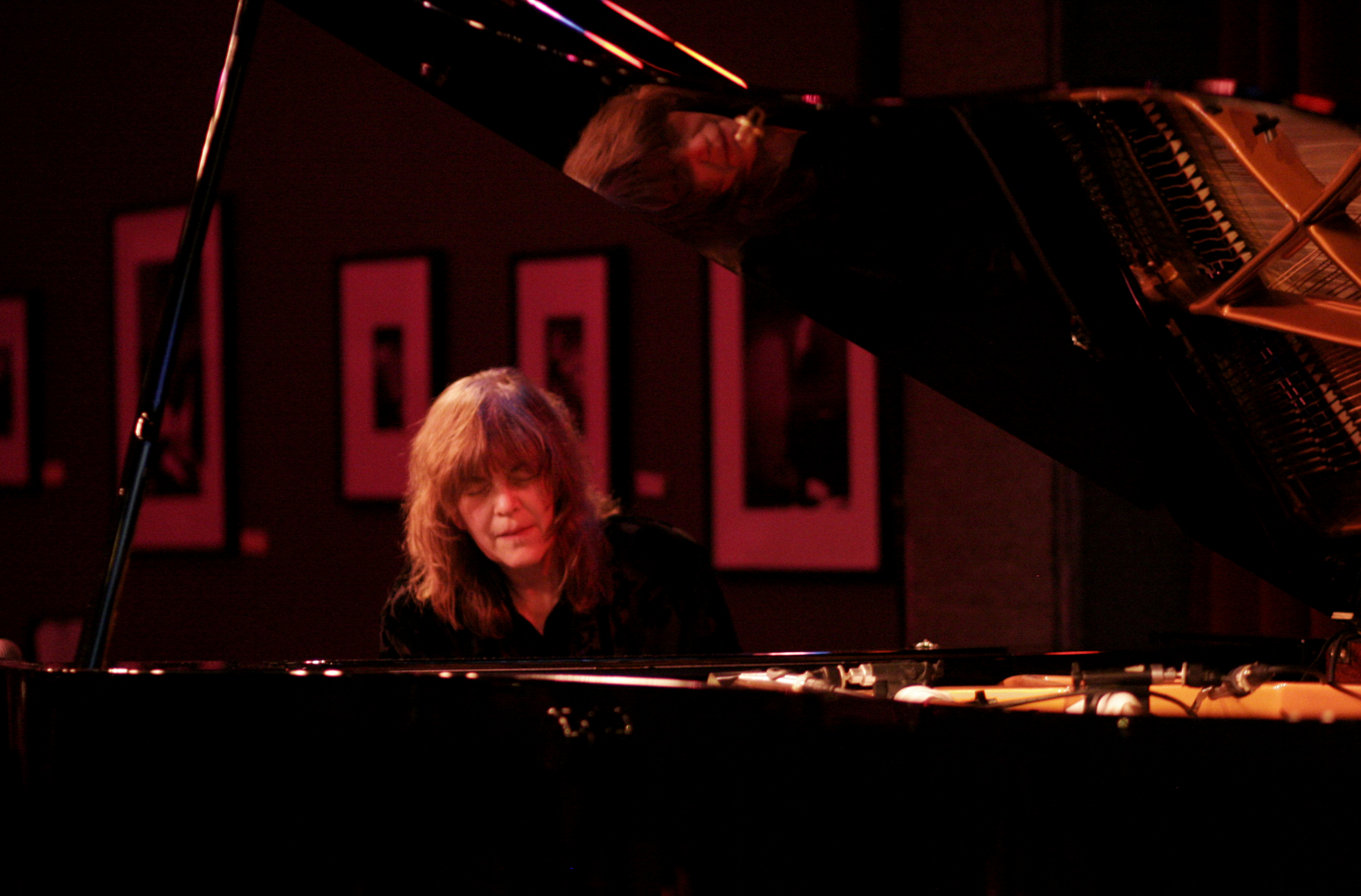 Marilyn Crispell in concert, April 29, 2008 Photo: Claire Stefani